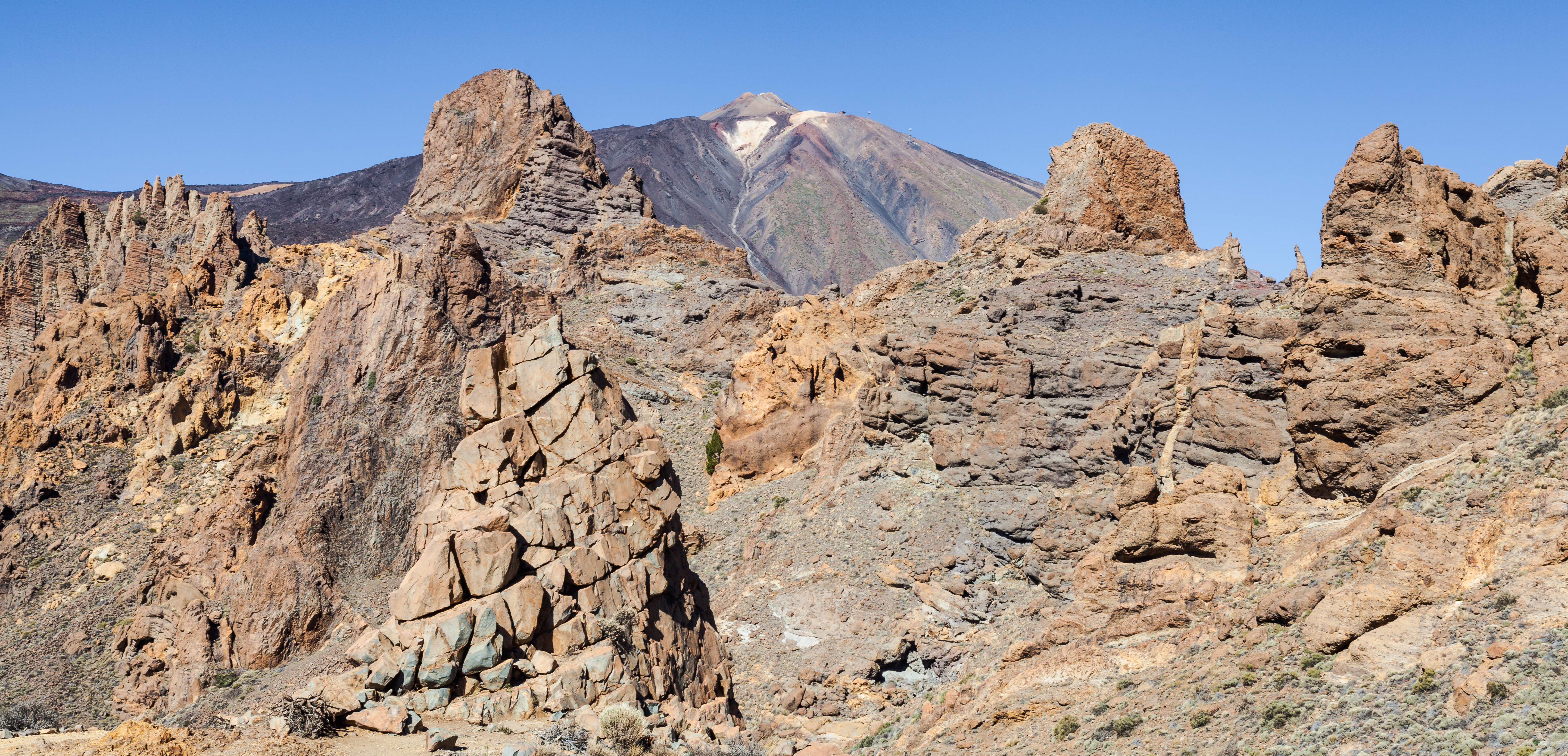 Roques de García, Teide National Park, Santa Cruz de Tenerife, Spain